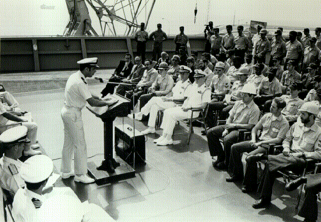 Official DOD photo of the first shipboard ceremony for the U.S. National Days of Remembrance of the Victims of the Holocaust, onboard USS Puget Sound, the Sixth Fleet Flagship, during a port visit to Malaga, Spain.